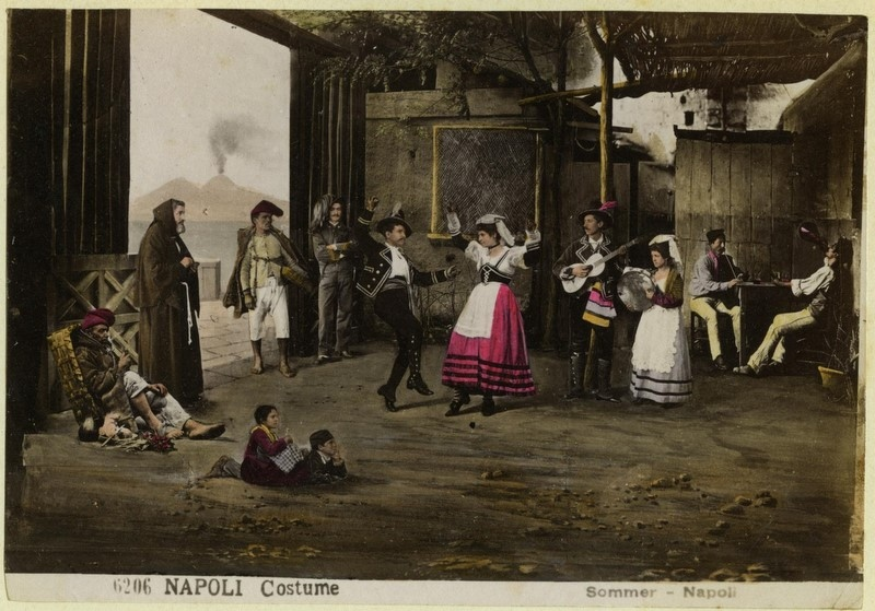 Giorgio Sommer (1834-1914), "Naples - Folklore". Catalogue # 2207. Hand-colored